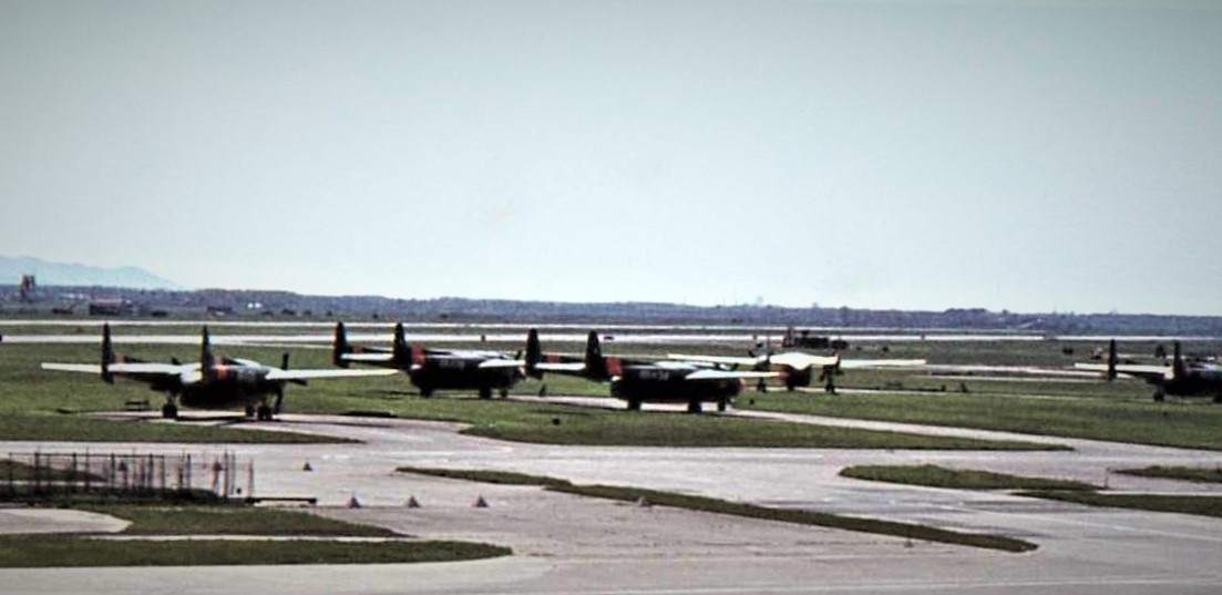 Fairchild C-119 Flying Boxcar of the Italian Air Force flying with the 2nd and 98th Group of the 46th Air Brigade at Pisa San Giusto airport.